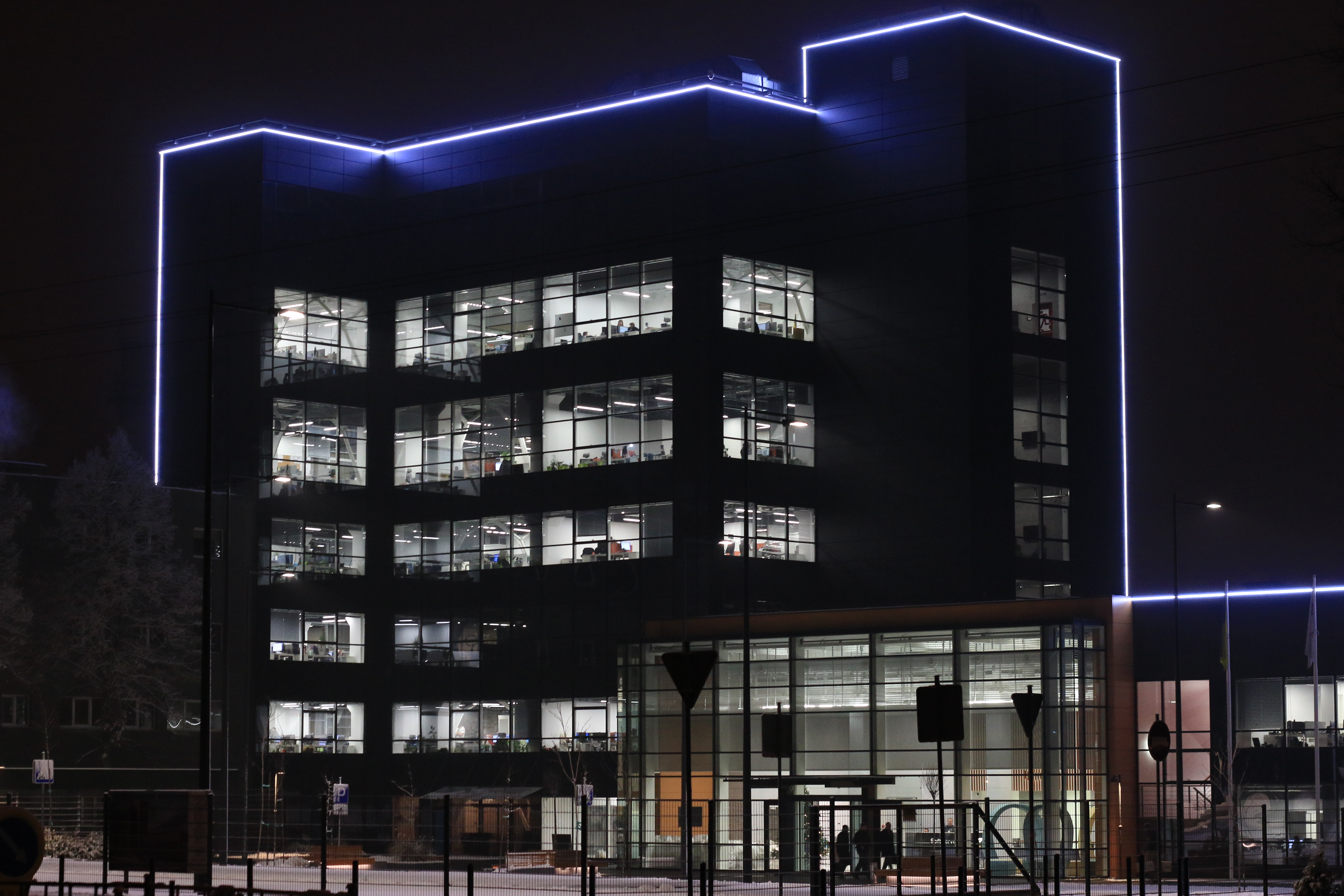 Matrix, business centre 2a, Sadova str. Lviv, Ukraine